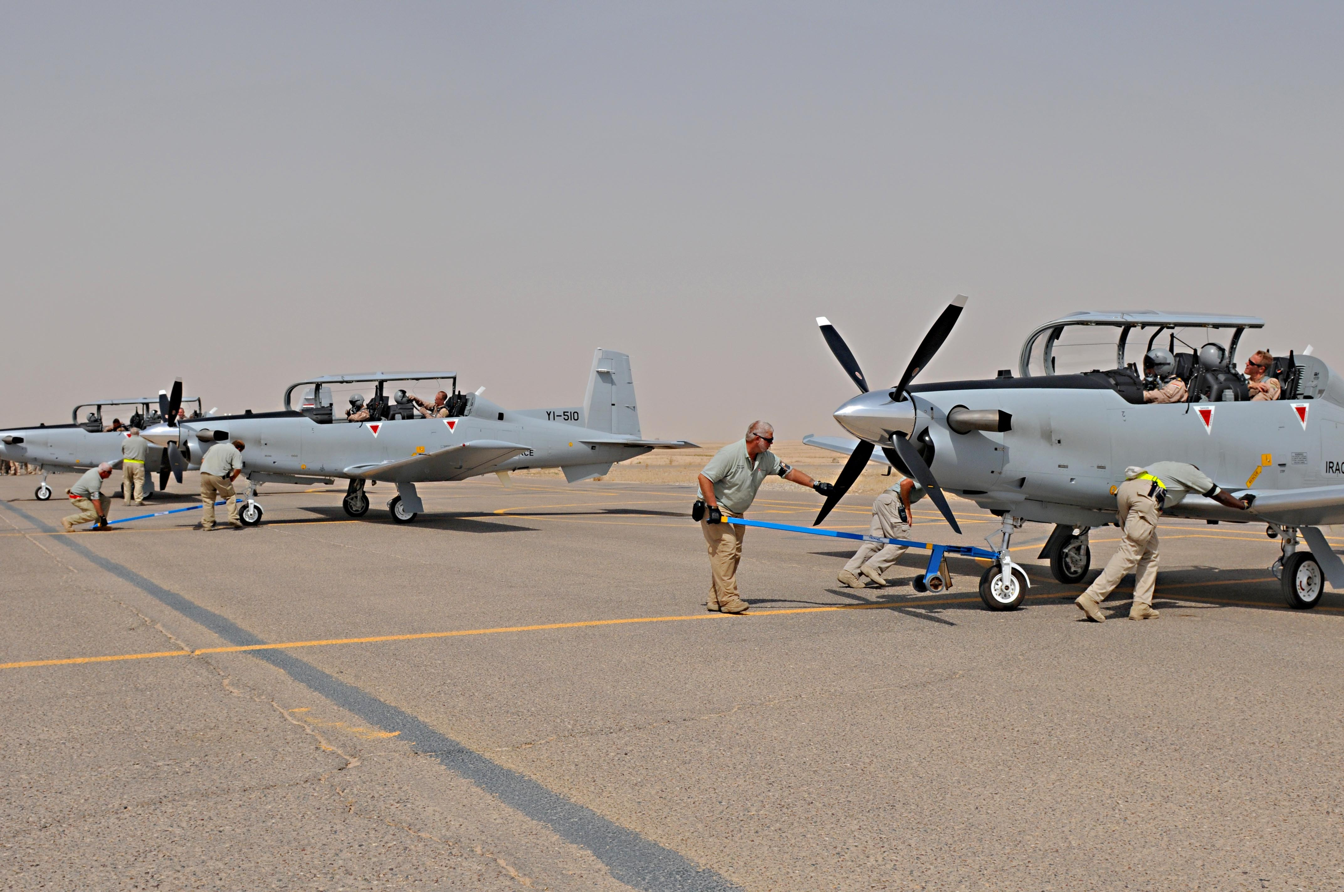 A T6 Texan II aircraft move toward its parking spot upon landing at Contingency Operating Base Speicher, near Tikrit, Iraq, Sept. 21. The aircraft, which is used for training purposes by Iraqi pilot students, arrived with two other T6 model aircraft and is an addition to the eight T6 models currently at COB Speicher, with four more arriving in November, equaling a total number of 15 T6 models on base.